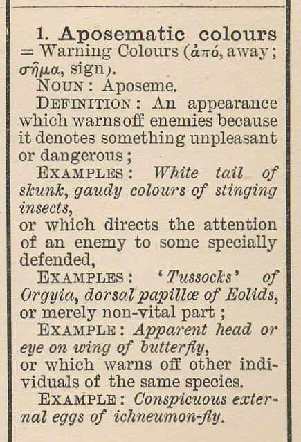 Fold-out table in which Edward Bagnall Poulton classifies the various functions of animal coloration, with Greek-derived terms including aposematism which he introduced here in his 'The Colours of Animals', 1890.